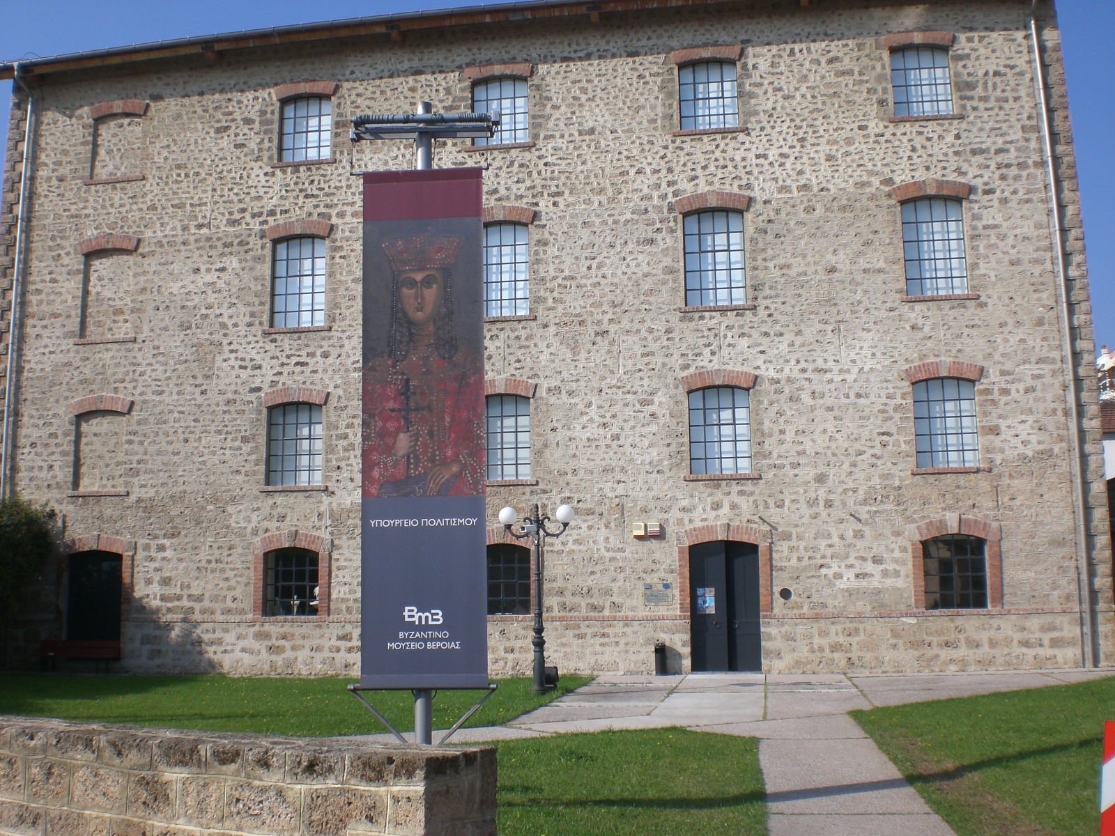 Veria Byzantine Museum